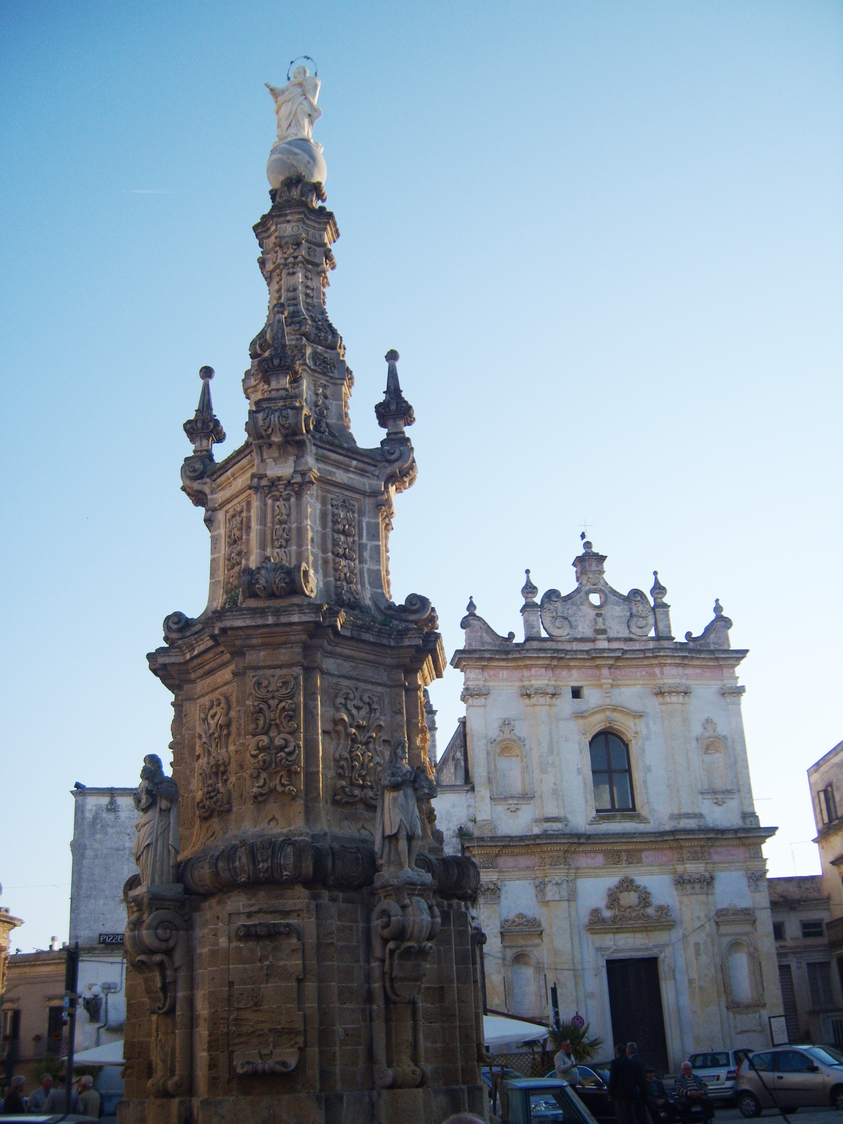 Column devoted to the Virgin in Salandra square in Nardò, Province of Lecce - Apulia (Italy). It was erected in 1769.